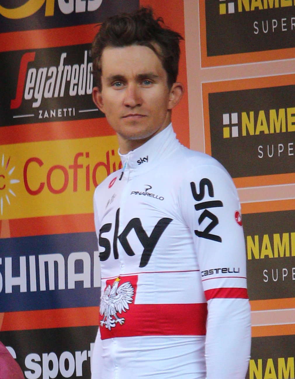 L-to-R: Oliver Naesen, Julian Alaphilippe and Michał Kwiatkowski in Sanremo